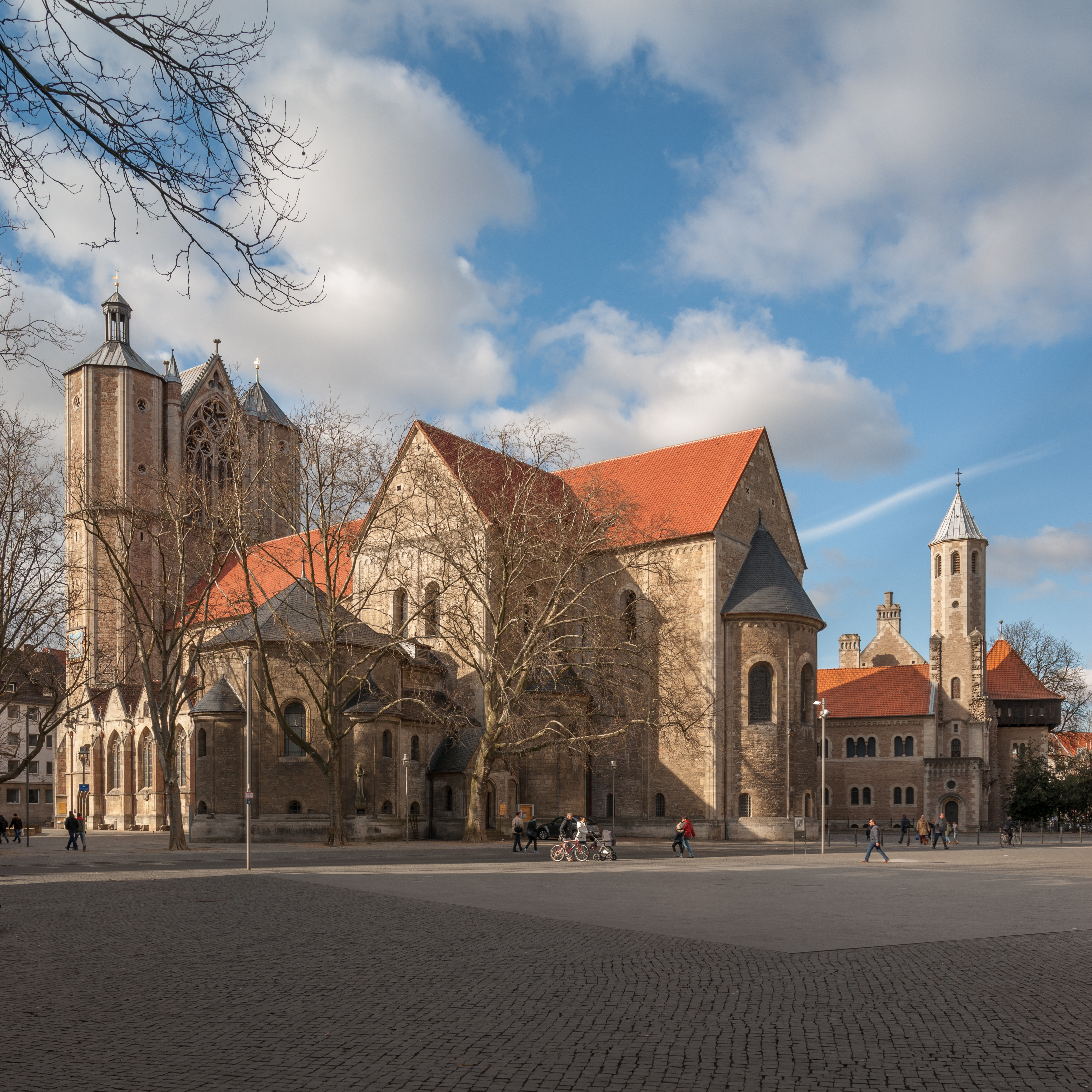 Brunswick Cathedral seen from the south-east; Brunswick, Lower Saxony.